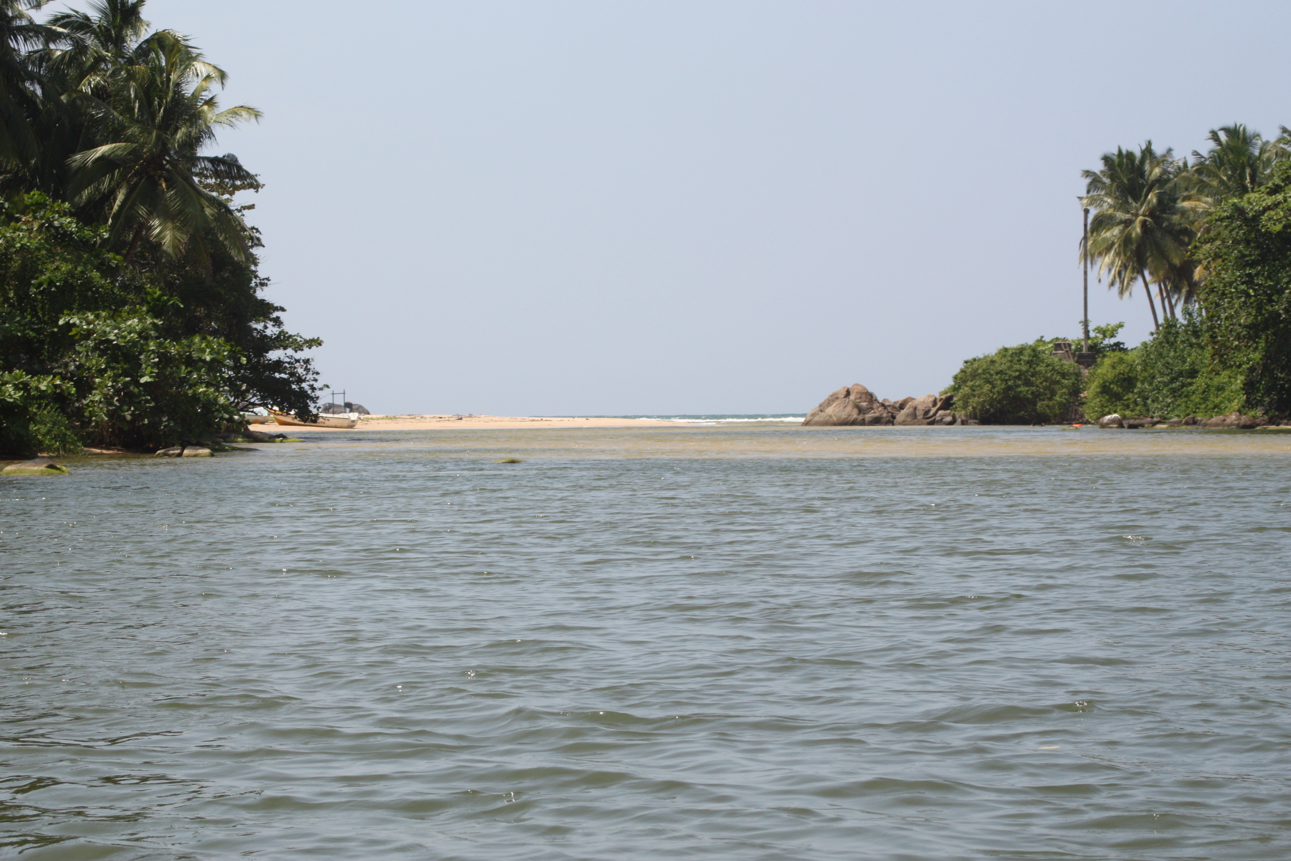 Mouth of the Maduganga estuary in Sri Lanka. In the distance is the Indian Ocean, separated from the river by a naturally formed sand bar. Taken from a boat on the river.